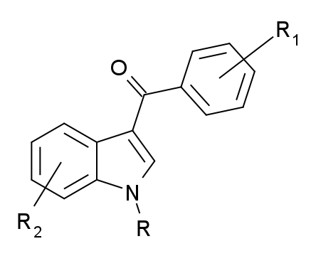 General structure of benzoylindoles